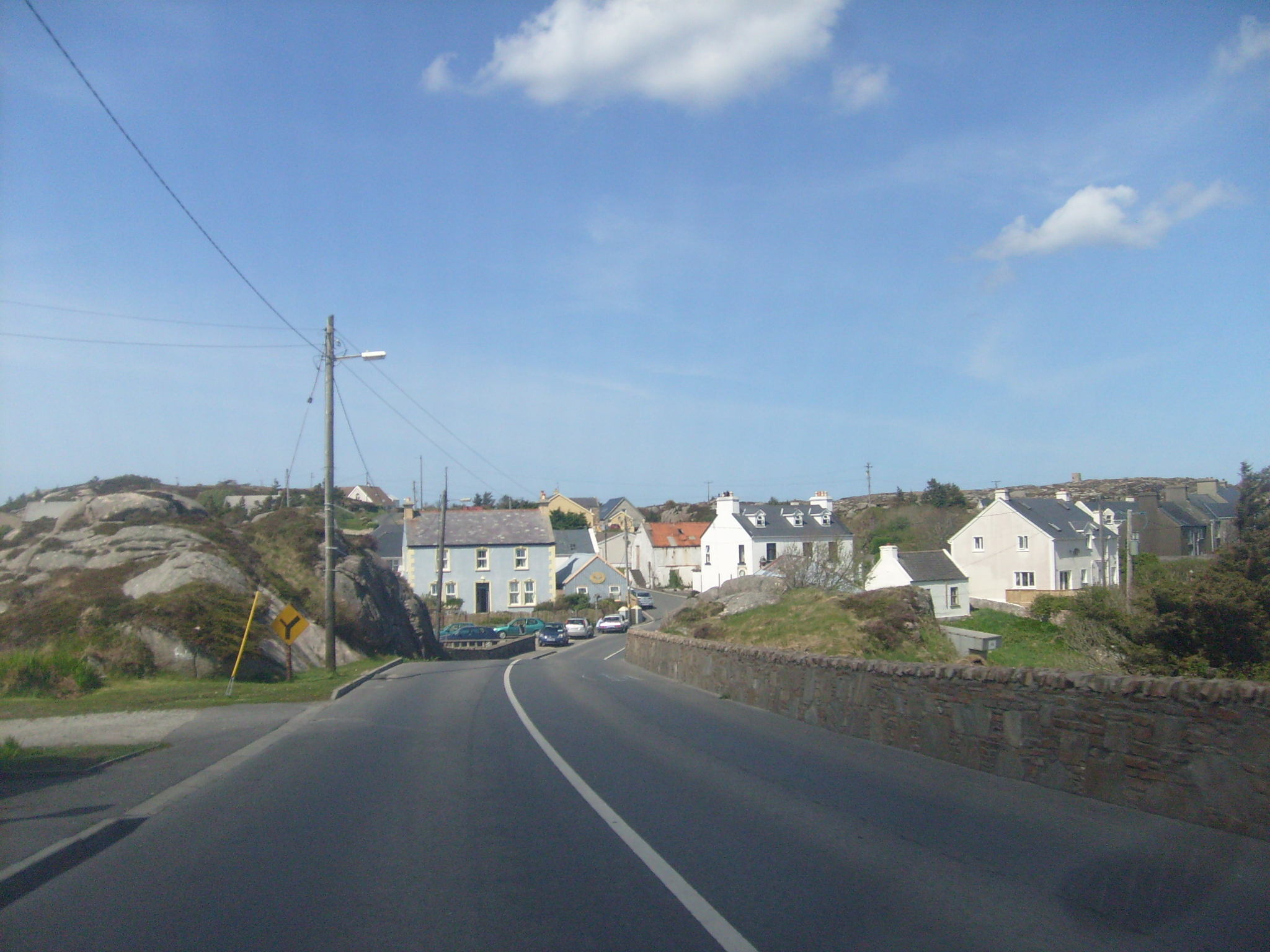 Cionn Caslach (Kincasslagh), Donegal, EIRE